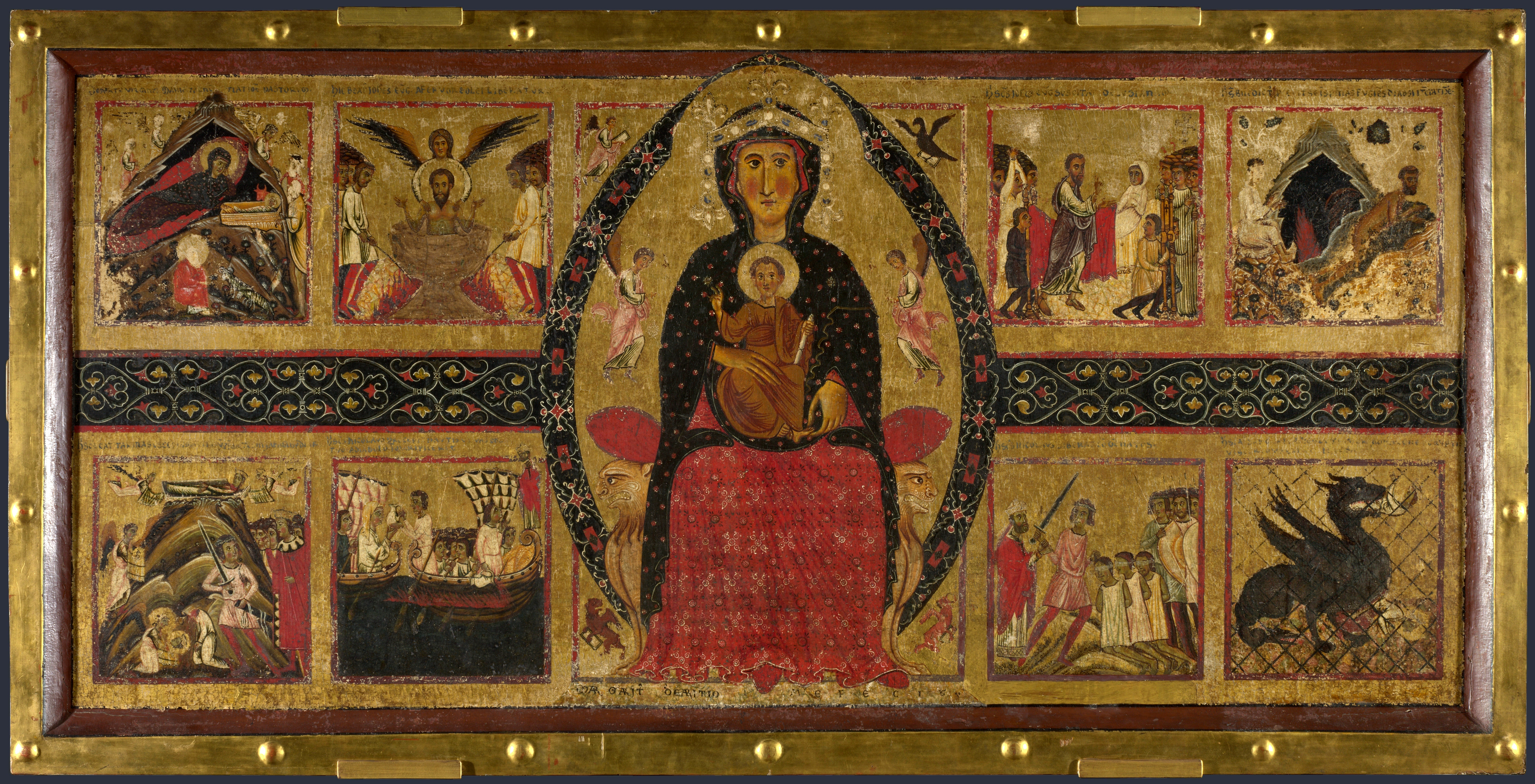 Margaritone d'Arezzo, Madonna and Child enthroned with narrative scenes. London, national gallery.